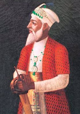 Asaf Jah I (ruled 1724-1748), founder and first Nizam of Hyderabad state (today India)